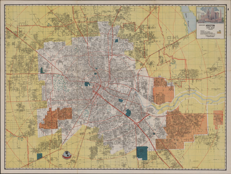 Ashburn's Houston City Map; business districts; Houston, Texas